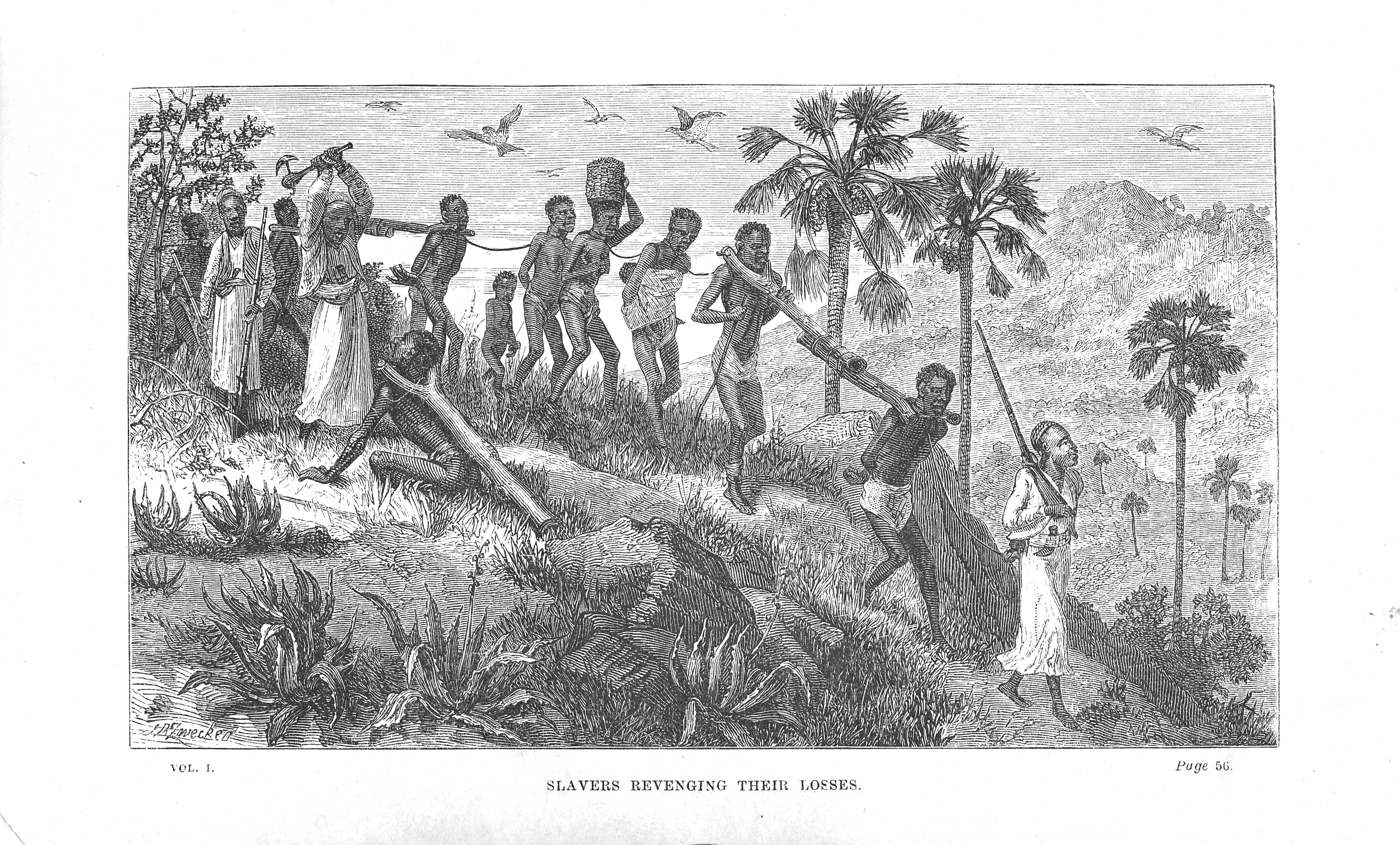 Captioned, "Slavers Revenging their Losses," shows a coffle of men, women, and children, led by Arab slavers; one of the guards is murdering a captive unable to keep up with the rest. These people were taken across Central Africa to the east coast of Africa. The engravings in this book are based on, according to the editor, "rude sketches" made by Livingstone. On June 19, 1866, Livingstone wrote: "We passed a woman tied by the neck to a tree and dead, the people of the country explained that she had been unable to keep up with the other slaves in a gang, and her master had determined that she should not become the property of anyone else if she recovered after resting a time. . . . we saw others tied up in a similar manner . . . the Arab who owned these victims was enraged at losing his money by the slaves becoming unable to march, and vented his spleen by murdering them" (p. 56). This is one of the best known and frequently reproduced images in the literature on slaving in Africa. Also published in: J. E. Chambliss, "The Life and Labors of David Livingstone" (Philadelphia, 1875), p. 435; "The Life and African Explorations of Dr. David Livingstone" (St. Louis, 1874), p. 87; and in Thomas W. Knox, "The Boy Travellers on the Congo" (New York, 1888), p. 419 --with the caption "Slave Caravans on the Road" -- which is sometimes erroneously given as the primary source.